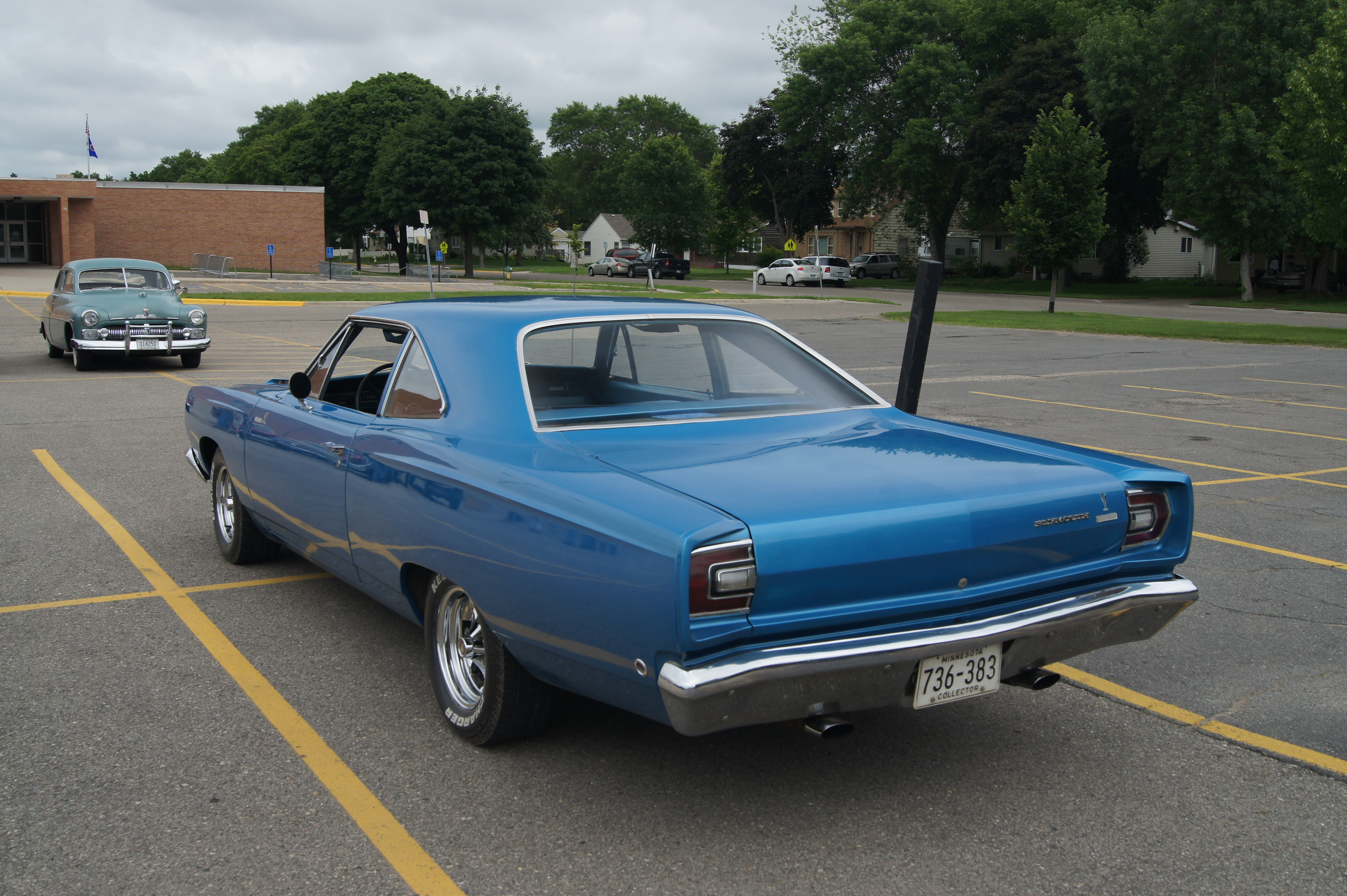 Willmar Car Club Members brought a mobile car show to a couple of area nursing homes. In cooperation, with Hemmings Motor News and their 16th Annual Celebration of the Old Man and his car. Click here for more car pictures at my Flickr site.